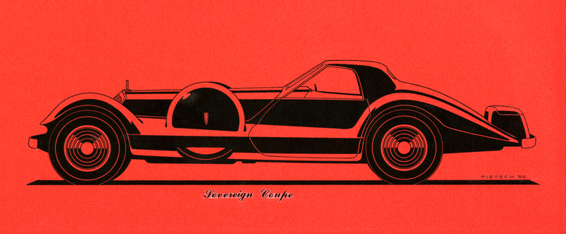 The original drawing has been donated to the Museum of Fine Arts, Boston, but the image posted here was made by me, T. W. Pietsch III. Please see the correspondence below from Jennifer C. Riley, Head of Image Licensing and Digital Archives Museum of Fine Arts, Boston. You may tell them that while the Museum of Fine Arts, Boston owns the artwork; we do not retain the copyright to Theodore Wells Pietsch II’s images. Best, Jennifer Jennifer Riley Head of Image Licensing and Digital Archives Museum of Fine Arts, Boston | 617-369-3777 Dear Mr. Pietsch, Regarding copyright, you retain copyright to any photos you took of the drawings made by your father. The copyright to the artworks and photographs does not revert to the Museum automatically upon donation of the works. The copyright to the photographs that you took stays with you so you have every right to upload those photos to Wikipedia. I am happy to provide you with language necessary for you to pass on to Wikipedia so you can reload the images. Since the Museum does not, in fact, hold the copyright to those photos, we cannot upload them. Best, Jennifer Jennifer Riley Head of Image Licensing and Digital Archives Museum of Fine Arts, Boston | 617-369-3777